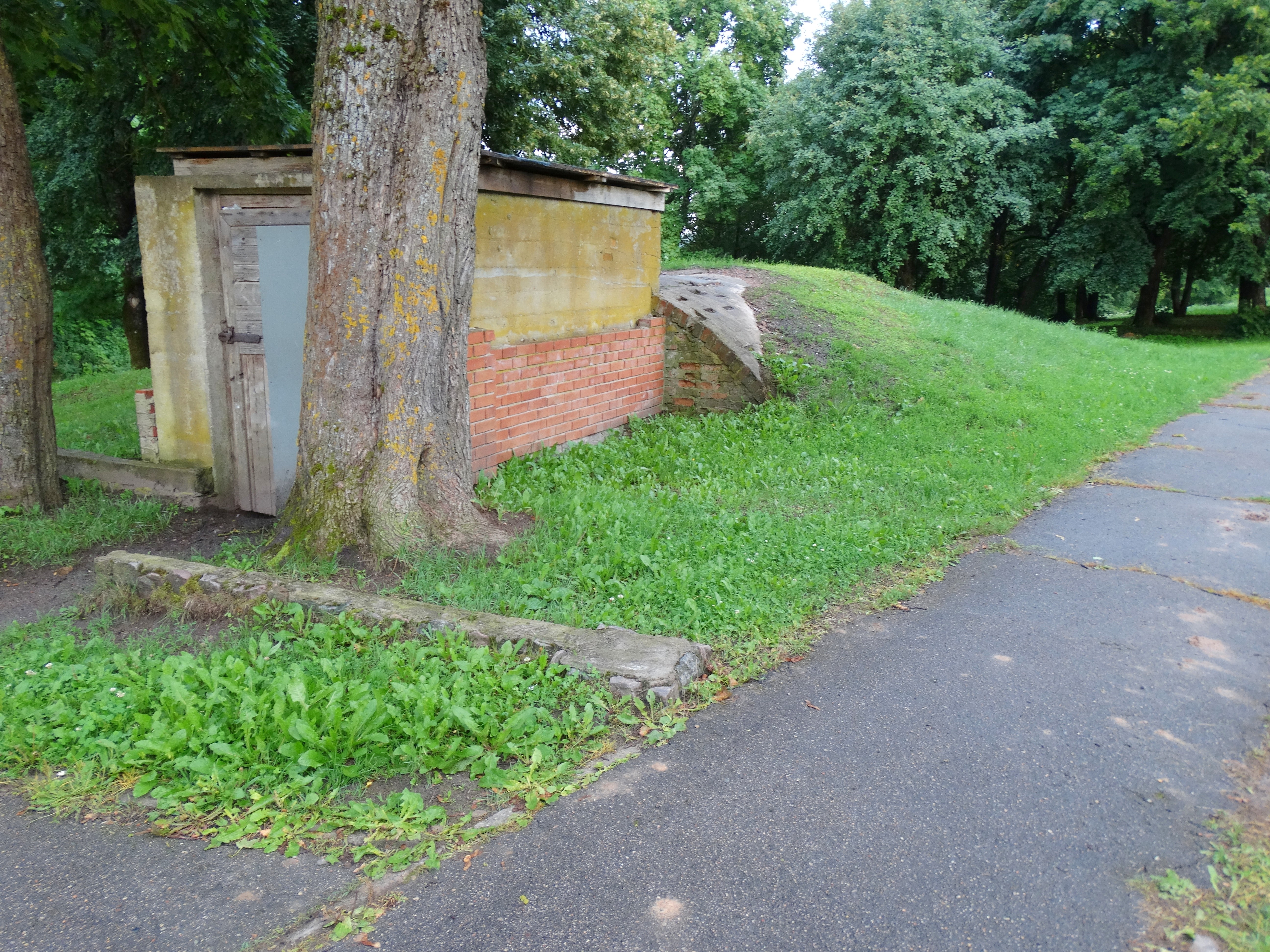 Lapės, Kaunas district, Lithuania